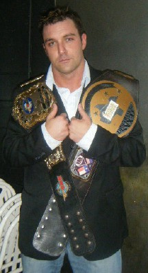 Mike DiBiase II in 2008. Photo by Roy Dunlap of Amarillo, TX.